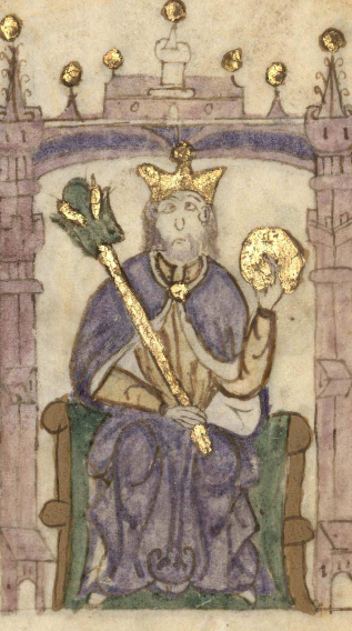 Garcia Ramírez of Navarre